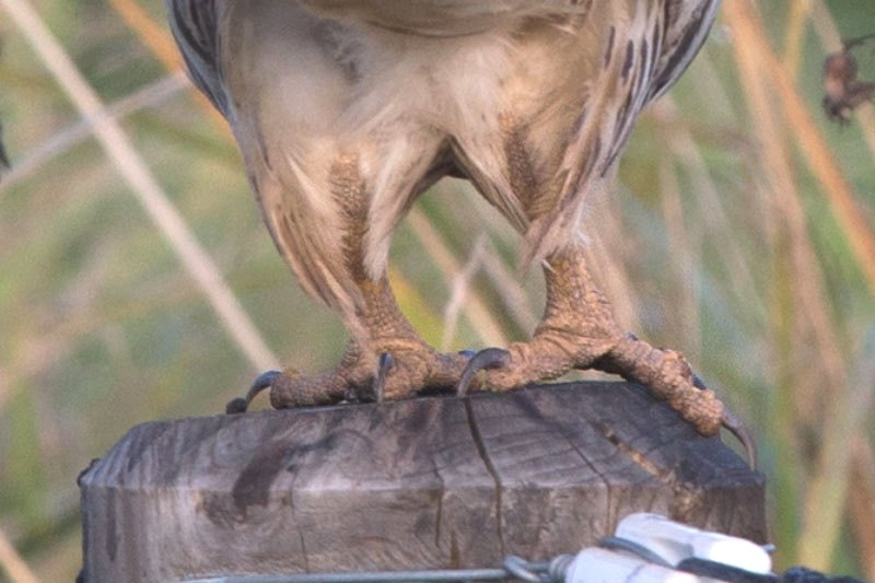 European honey buzzard, legs